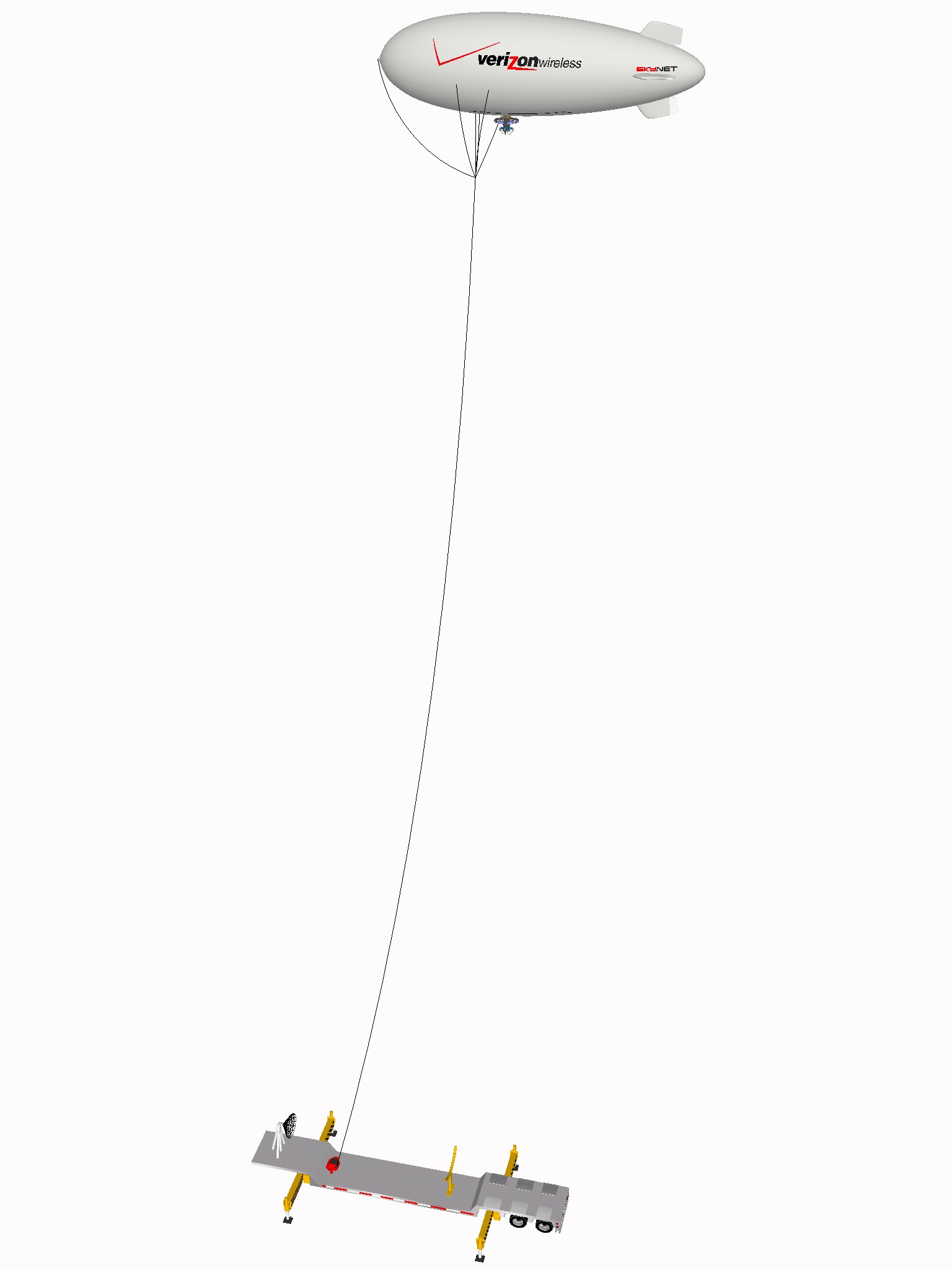 Tethered blimp for telecomunications